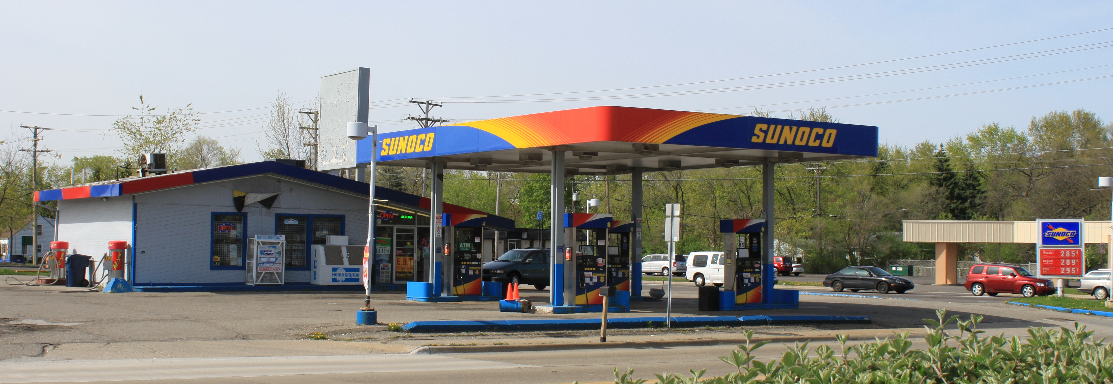 Sunoco service station, Ypsilanti, MI